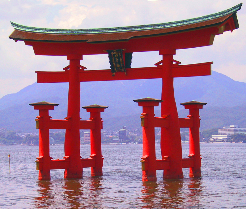 A Japanese Torii at Itsukushima Shrine, a Shinto shrine in Hiroshima Prefecture.